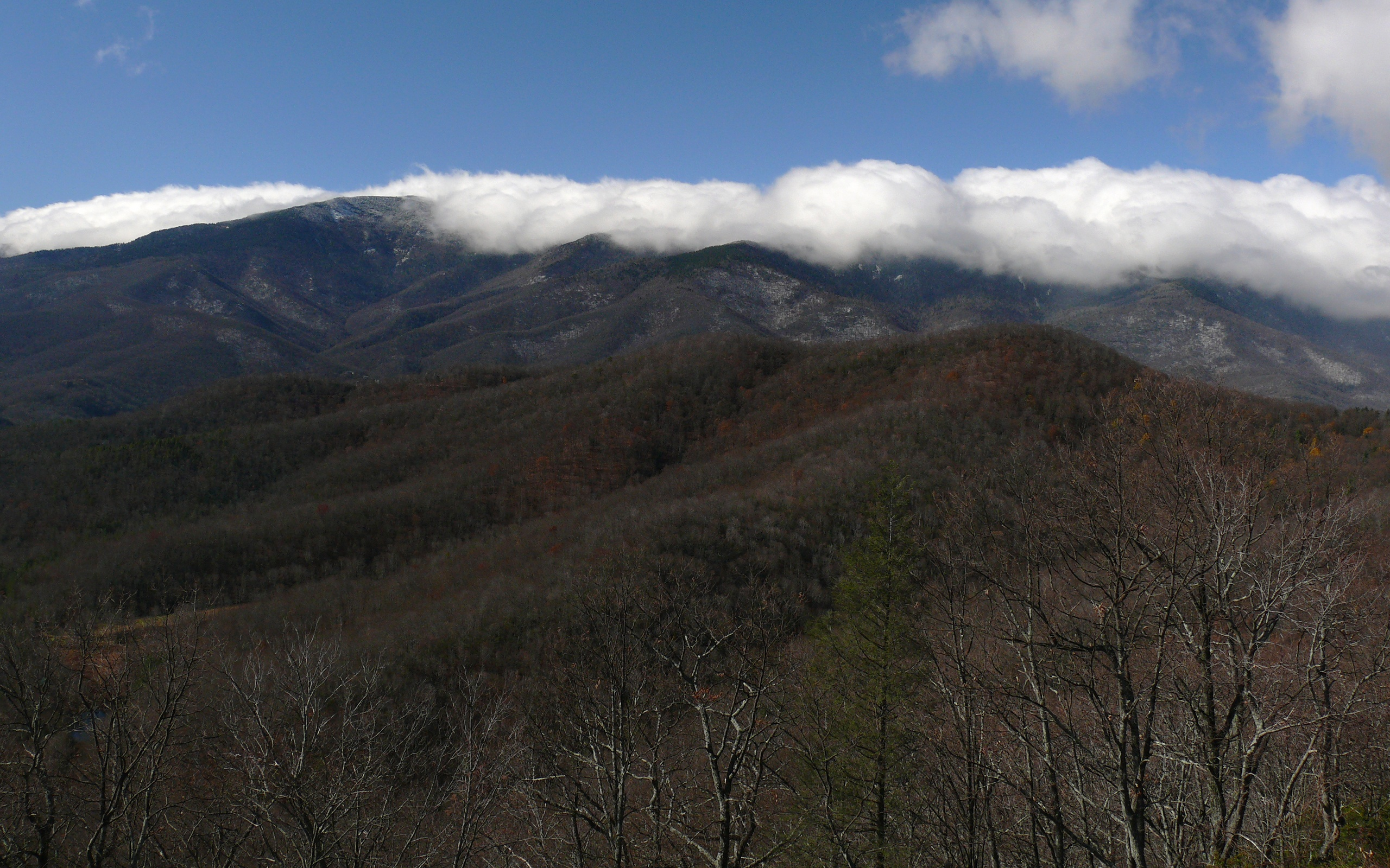 A snowstorm breaks over the crest of the Black Mountain range. Photo taken with a Panasonic Lumix DMC-FZ50 in Yancey County, NC, USA. Cropping and post-processing performed with The GIMP.